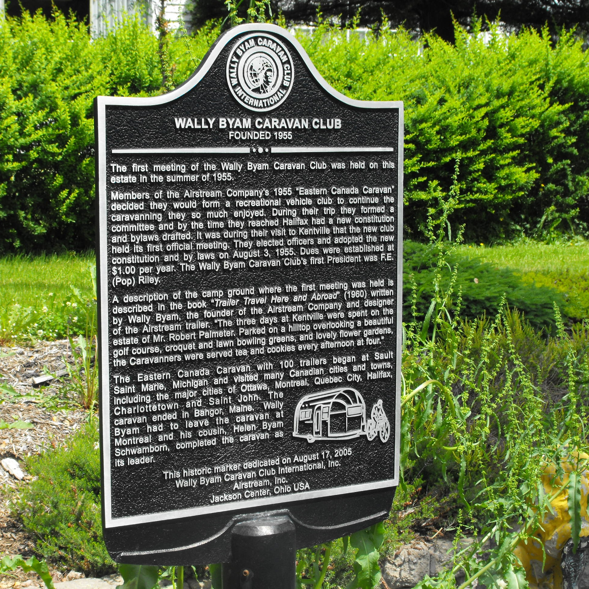 Site marker of the founding meeting of the Wally Byam Caravan Club — in Kentville, Nova Scotia, Canada. An Airstream travel trailer club.